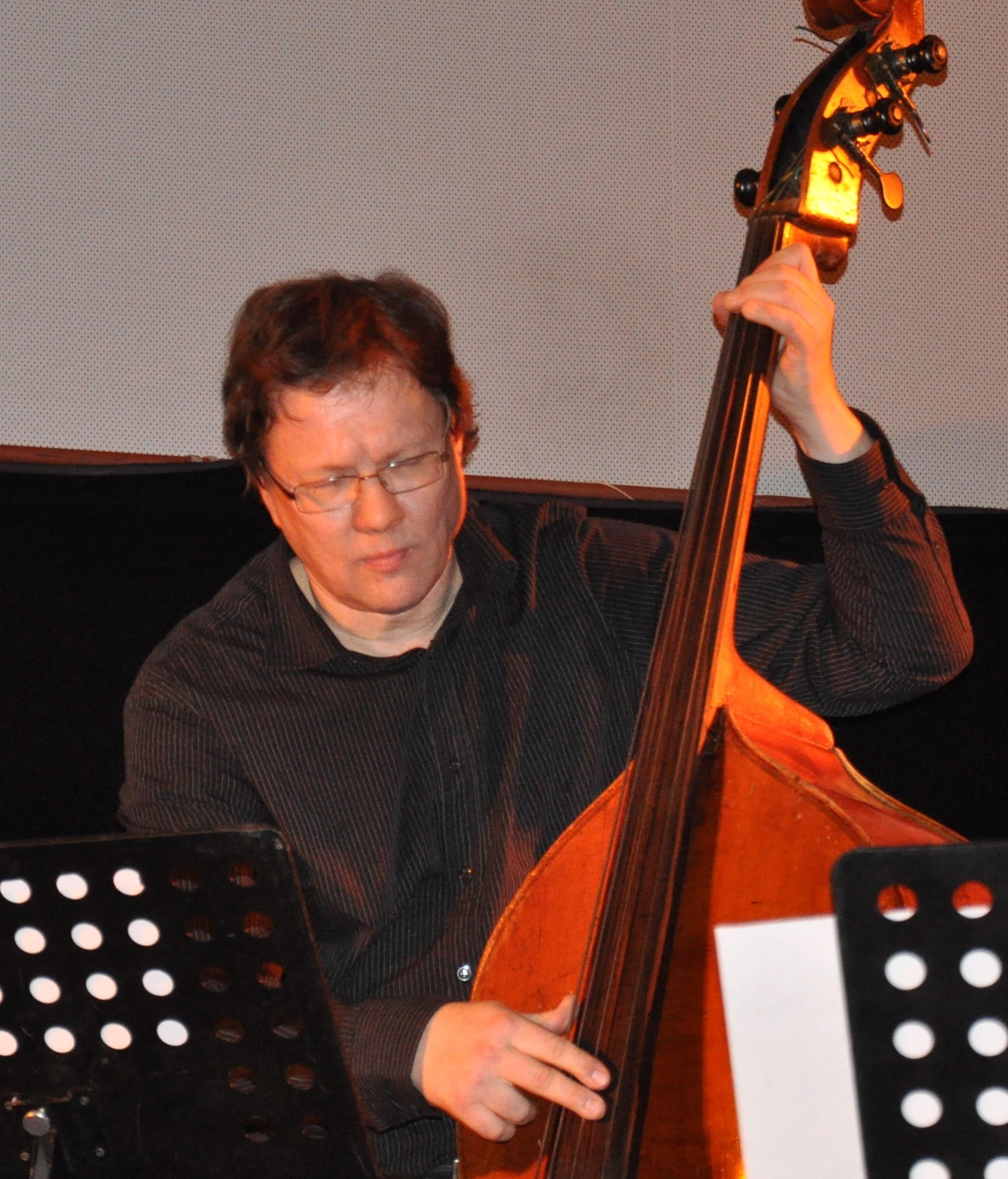 Finnish bassist Eerik Siikasaari at a gig with Piirpauke in Turku 2009.